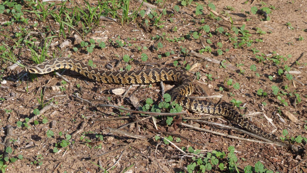 Vipera palaestinae